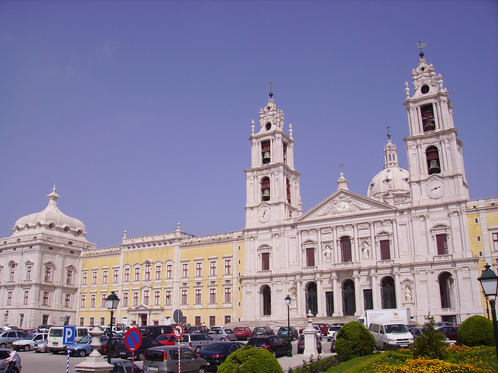 city in portugal mafra with the beautiful monument and burg built for Königin Anne von Österreich The dimensions of this Baroque and neo-classic munumental palace-monastery in the Italian style are so enormous ;(it) crushes a little the city. We say that the palace-monastery is an attempt of Portugal to compete with the Spanish palace of Escurial of Madrid. The palace was built during the reign of King John V ( 1707-1750 ), further to the wish which king had made in 1711, to set up a convent if his wife, Queen Anne of Austria, gave him heirs. After the birth of her first child, princess Barbara of Braganza, king thus ordered the beginning of the works in 1717. The chosen architect was Ludovice, German of Italian origin.